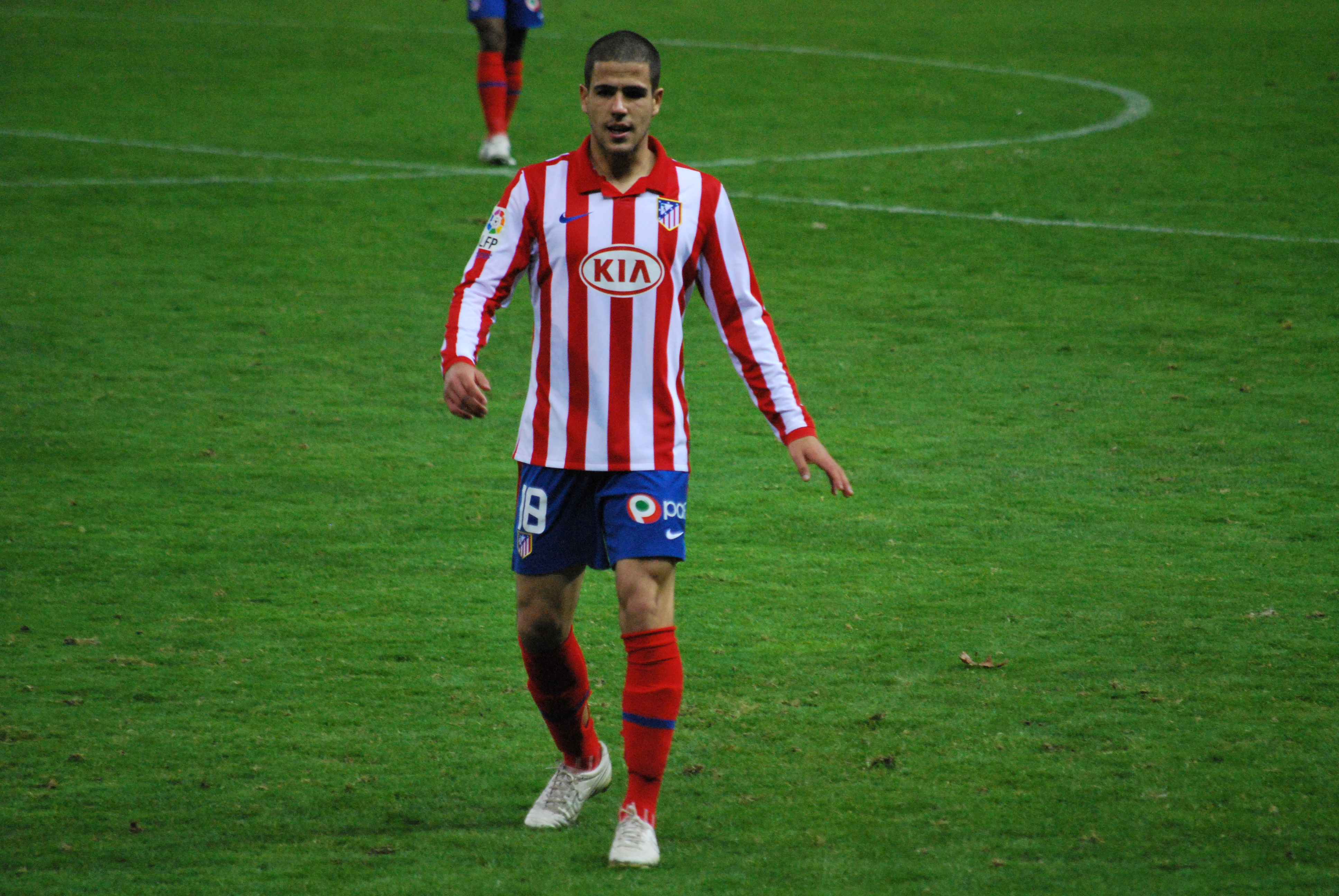 Atlético de Madrid player, Álvaro Domínguez during La Liga game against RCD Espanyol at the Vicente Calderón Stadium in Madrid.